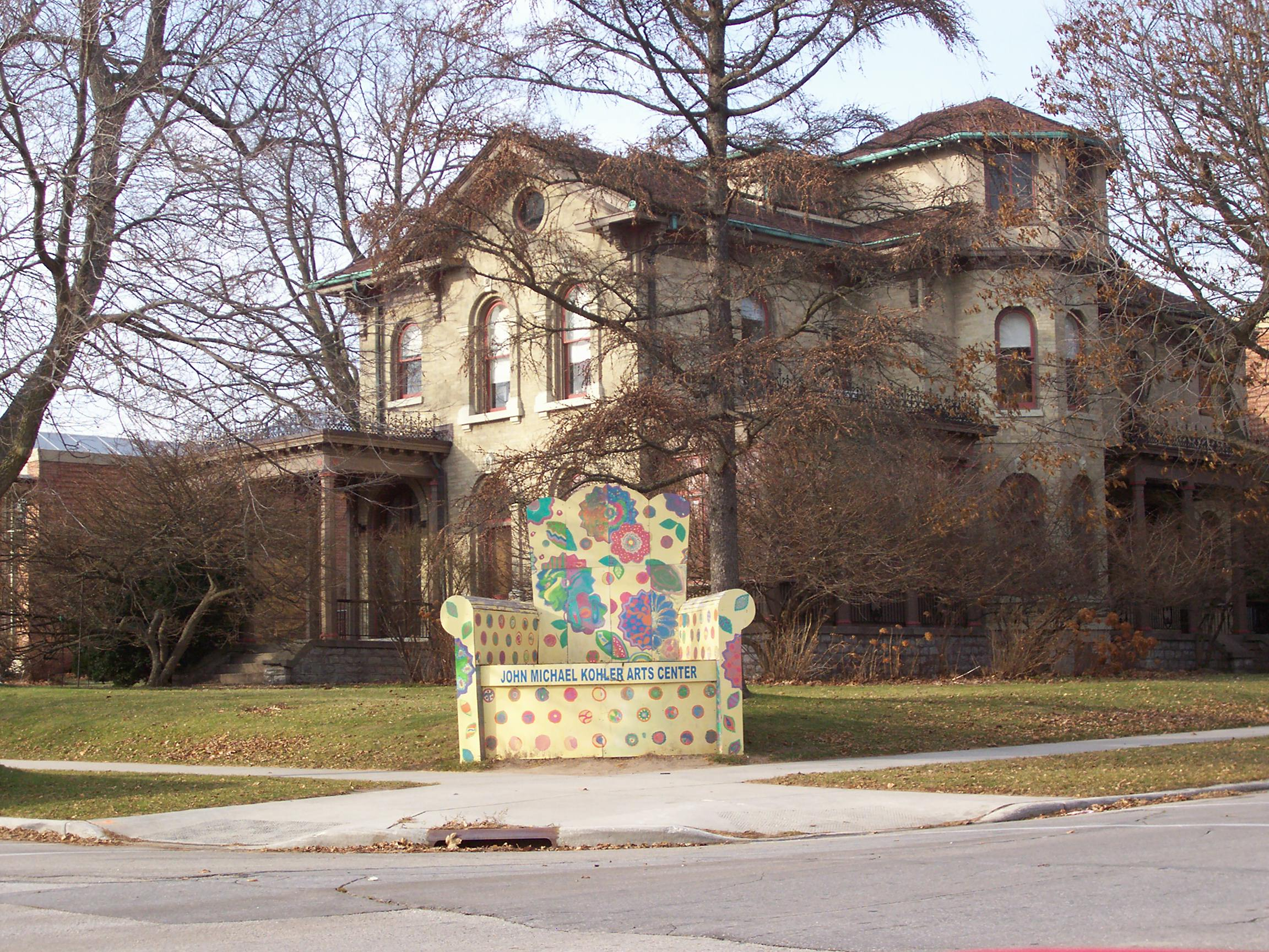 part of the John Michael Kohler Art Center in Sheboygan, Wisconsin, USA.